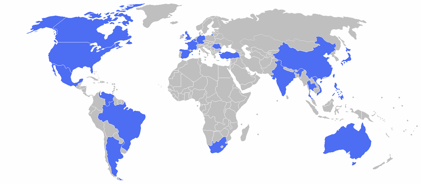 Ford Motor Company global locations